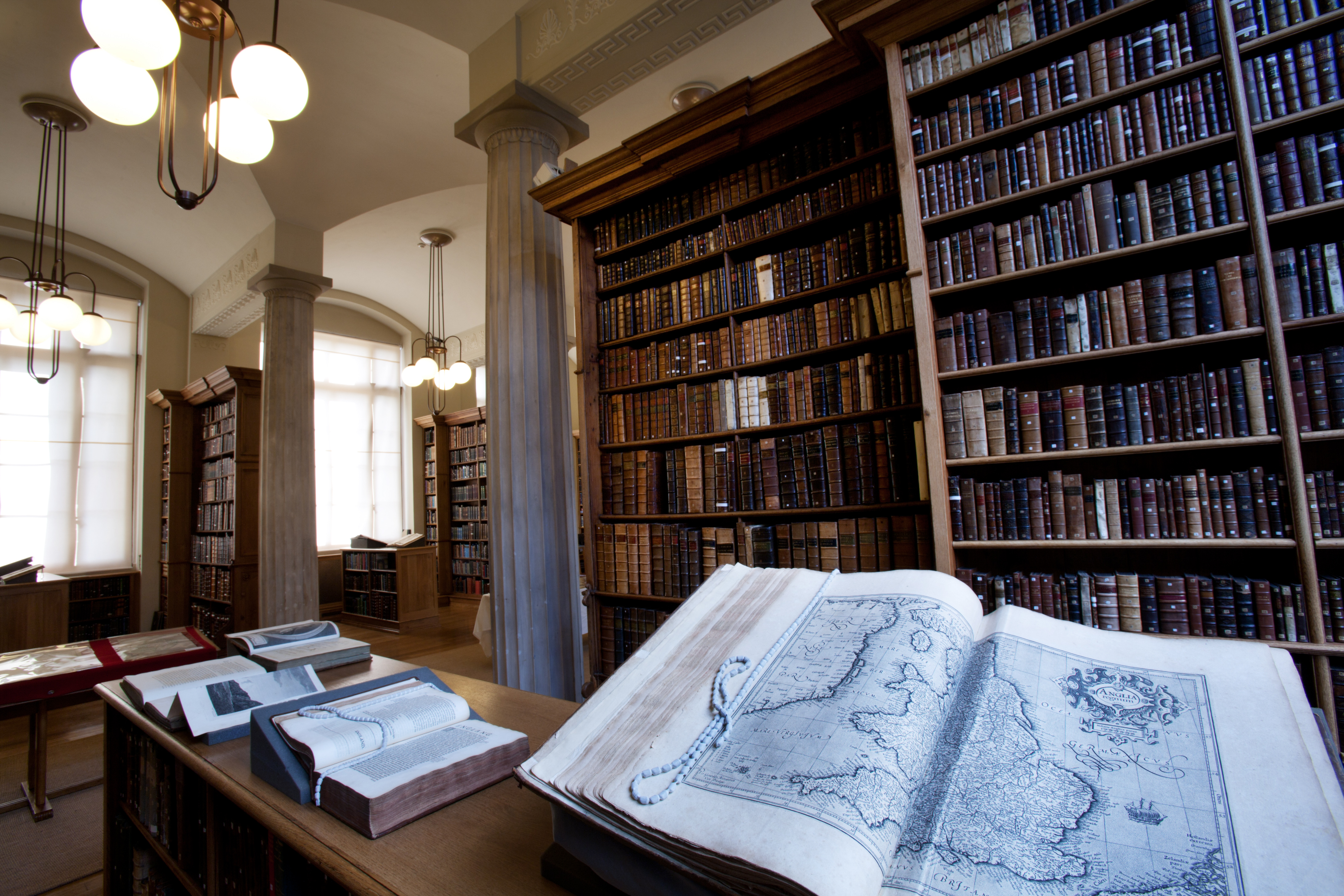 Gonville and Caius & University of Cambridge Library, Cambridge, UK